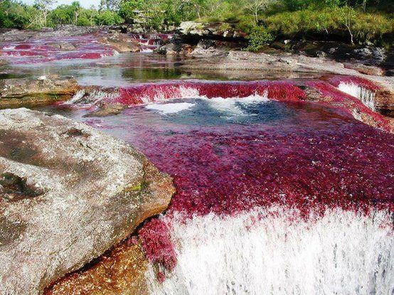 Caño Cristales is a Colombian river located in the Serrania de la Macarena province of Meta. The river is commonly called the River of Five Colors or the Liquid Rainbow, and is even referred to as the most beautiful river in the world due to its striking colors. The bed of river in the end of July through November is variously colored yellow, green, blue, black, and especially red, the last caused by the Macarenia clavigera (Podostemaceae) on the bottom of the river.